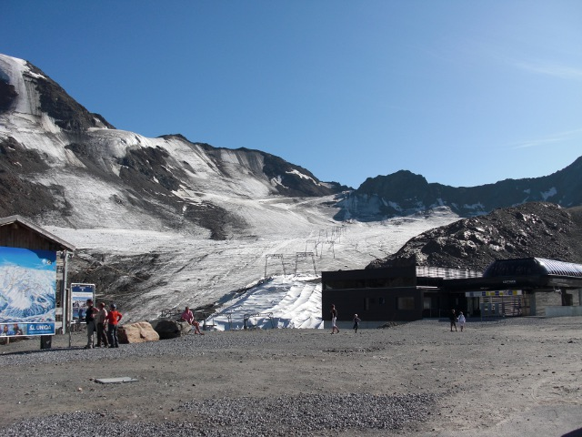 View from the endpoint of the Kaunertaler Gletscherstraße to the Weißseeferner. On the right is the "valley station" of the Karlesjochbahn (2.750 - 3.108 m)